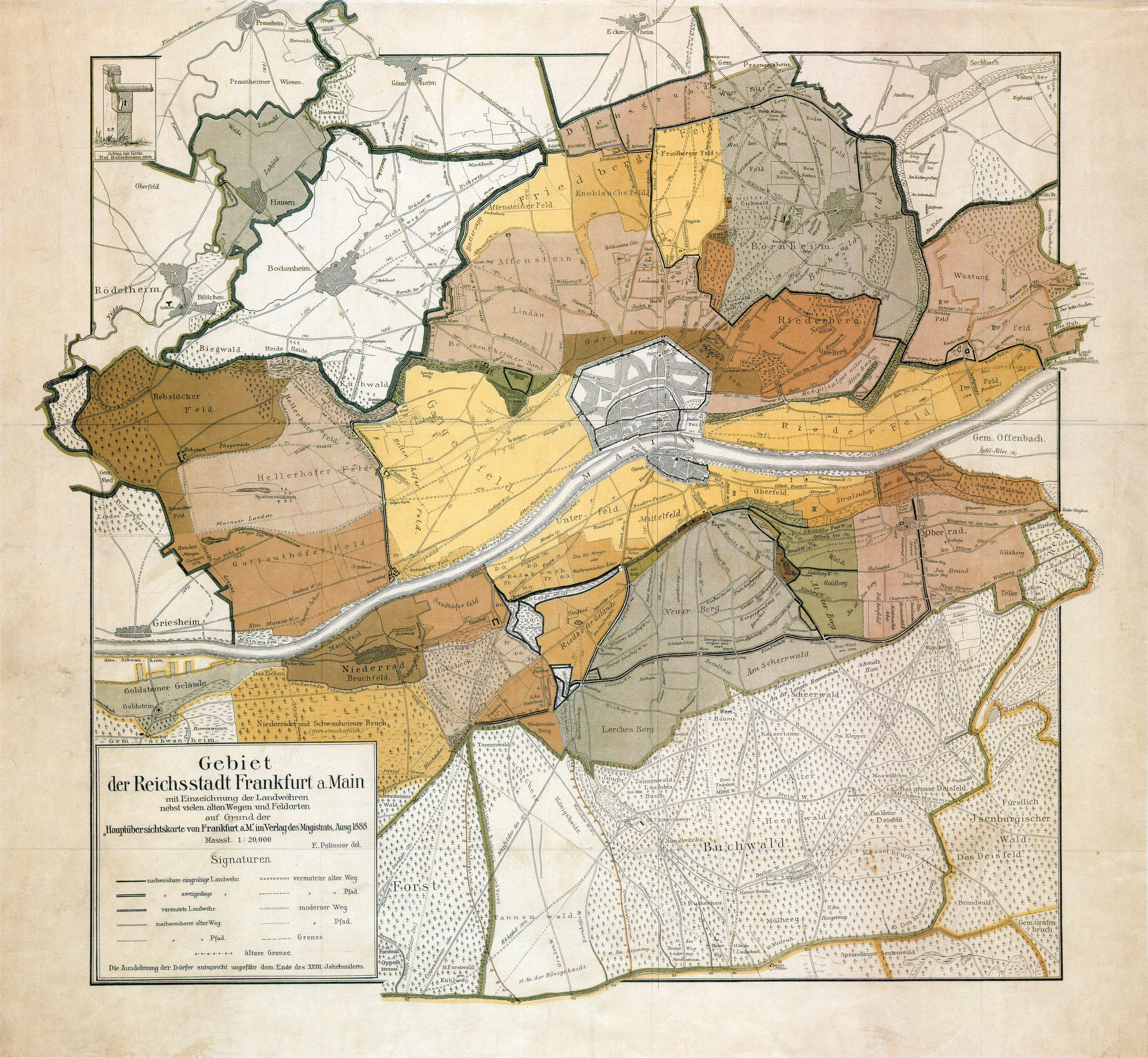 The Kühhornshof in the northern militia is outlined in blue.